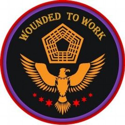 Wounded to Work Congressional Caucus Logo